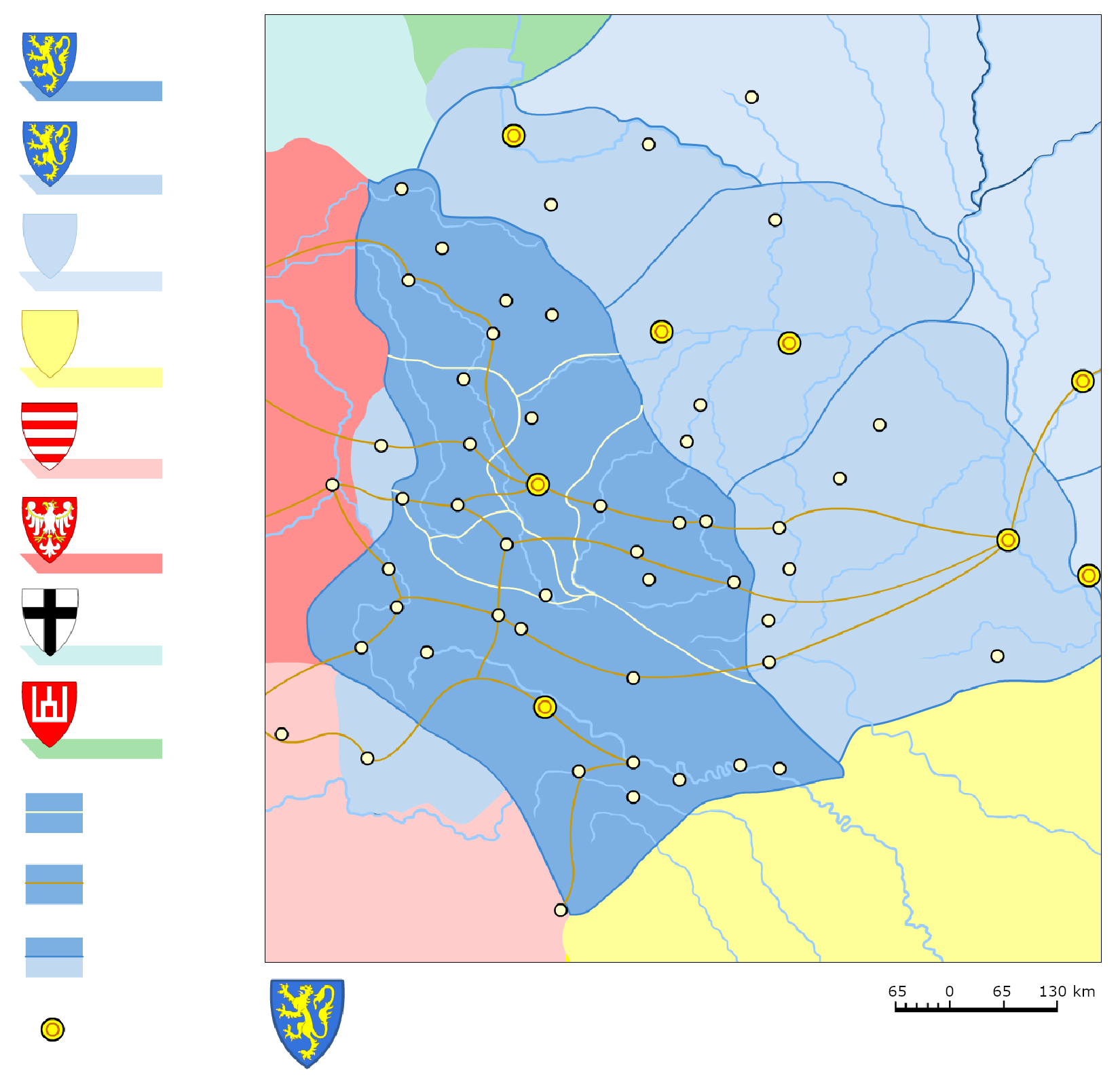 Map of Halych-Volhynia in the 13th-14th c.